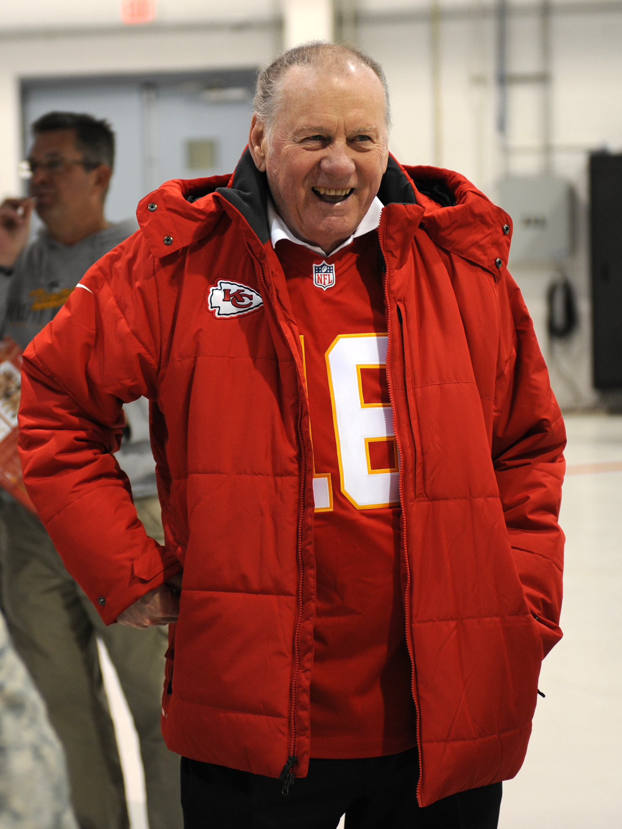 Retired Kansas City Chiefs quarterback Len Dawson laughs while meeting with members of Team Whiteman at Whiteman Air Force Base, Mo., Nov. 18, 2014. Dawson was the fifth overall pick in the 1957 NFL draft by the Pittsburgh Steelers.